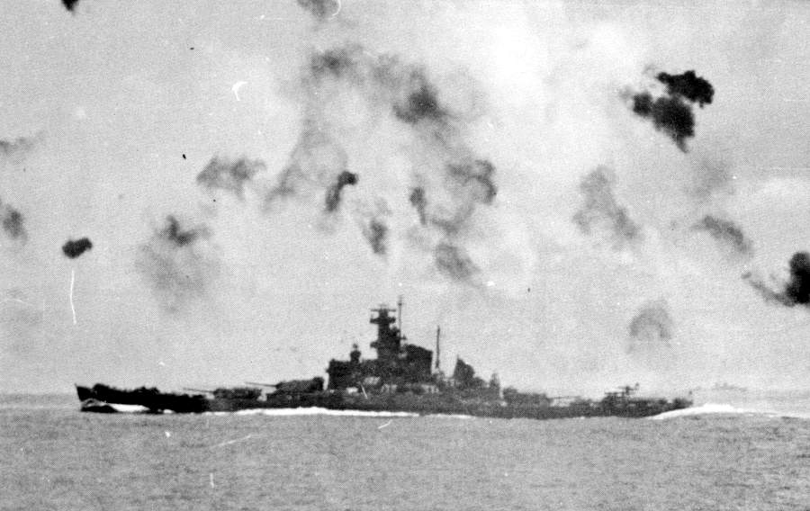 The U.S. Navy battleship USS South Dakota (BB-57) underway at high speed while firing her anti-aircraft guns during the Battle of the Santa Cruz Islands on 26 October 1942.